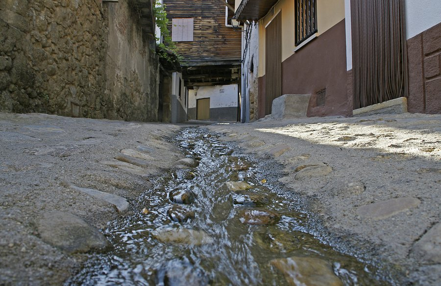 Canales de agua